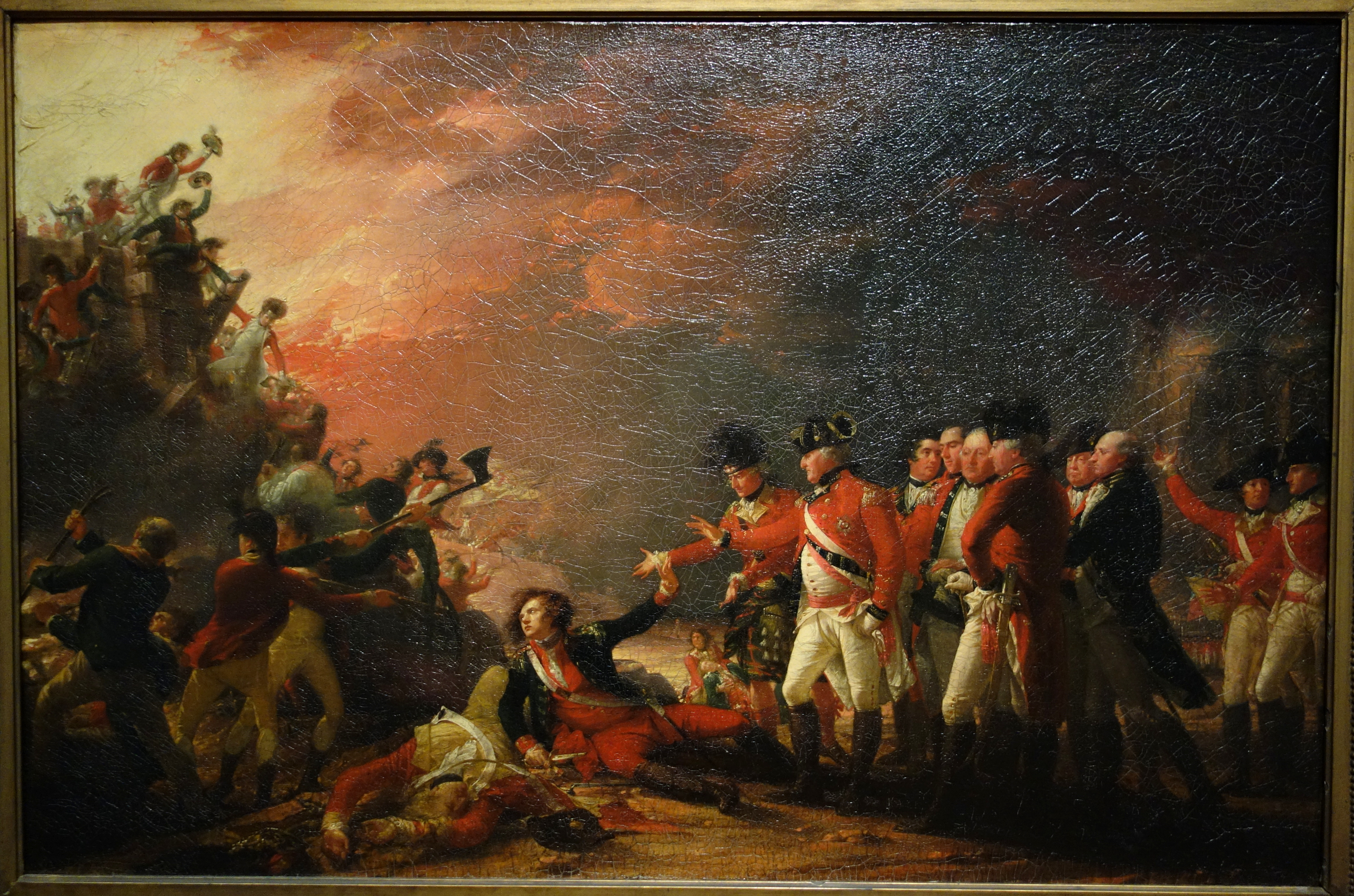 The Sortie Made by the Garrison of Gibraltar